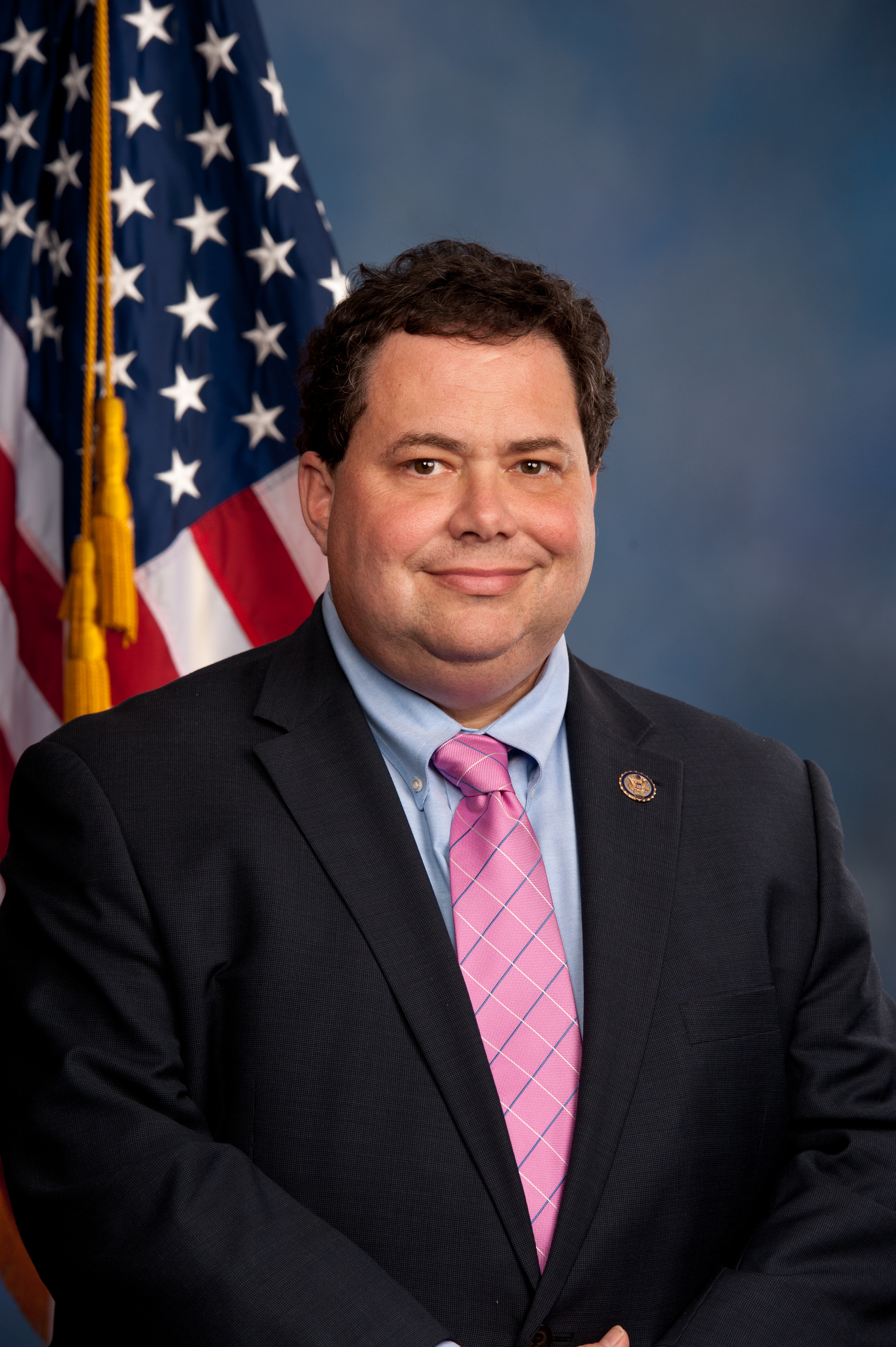 Official portrait of Rep. Blake Farenthold